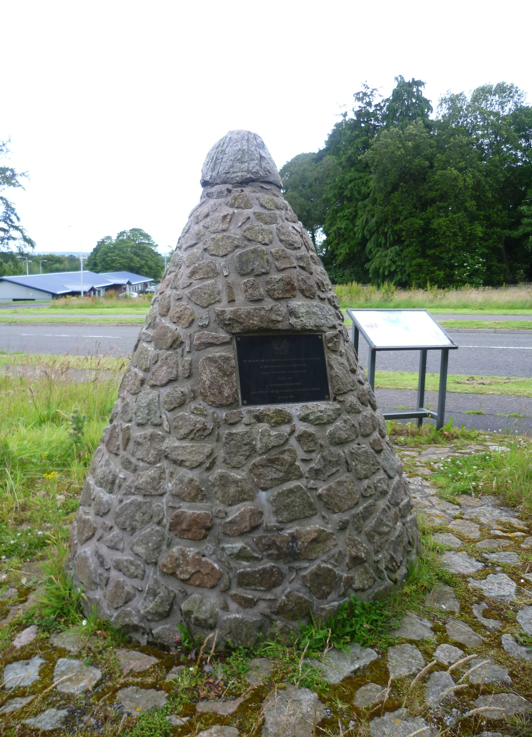 Near here Sir Hector Maclean of Duart was killed at the Battle of Inverkeithing along with some 760 of his men. 20 July 1651. Another for Hector!* Erected by the Clan Maclean Heritage Trust 20 July 2001 clan slogan